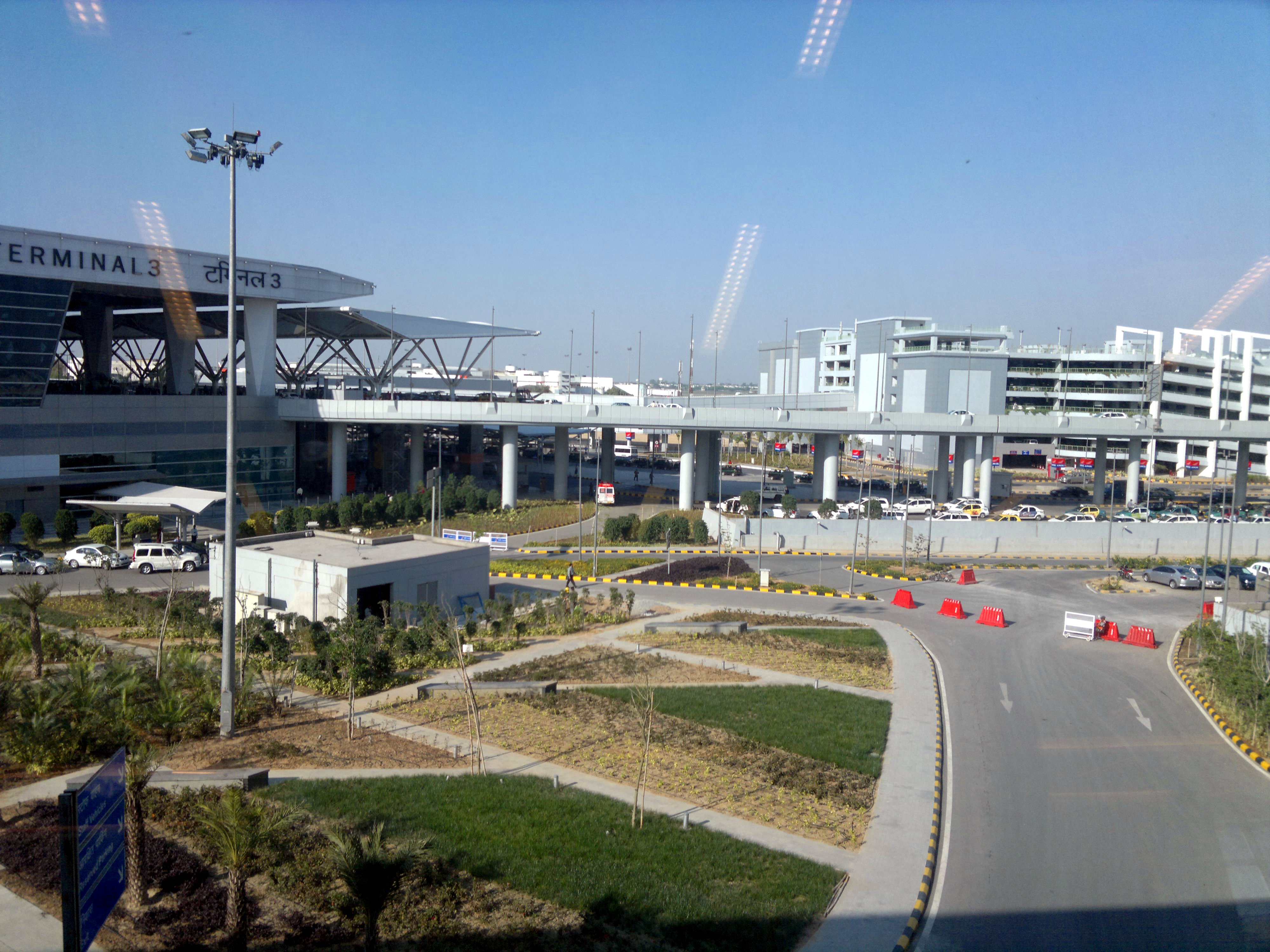 Indira Gandhi International Airport (Hindi: इन्दिरा गाँधी अंतर्राष्ट्रीय हवाई अड्डा) (IATA: DEL, ICAO: VIDP) - Terminal-3